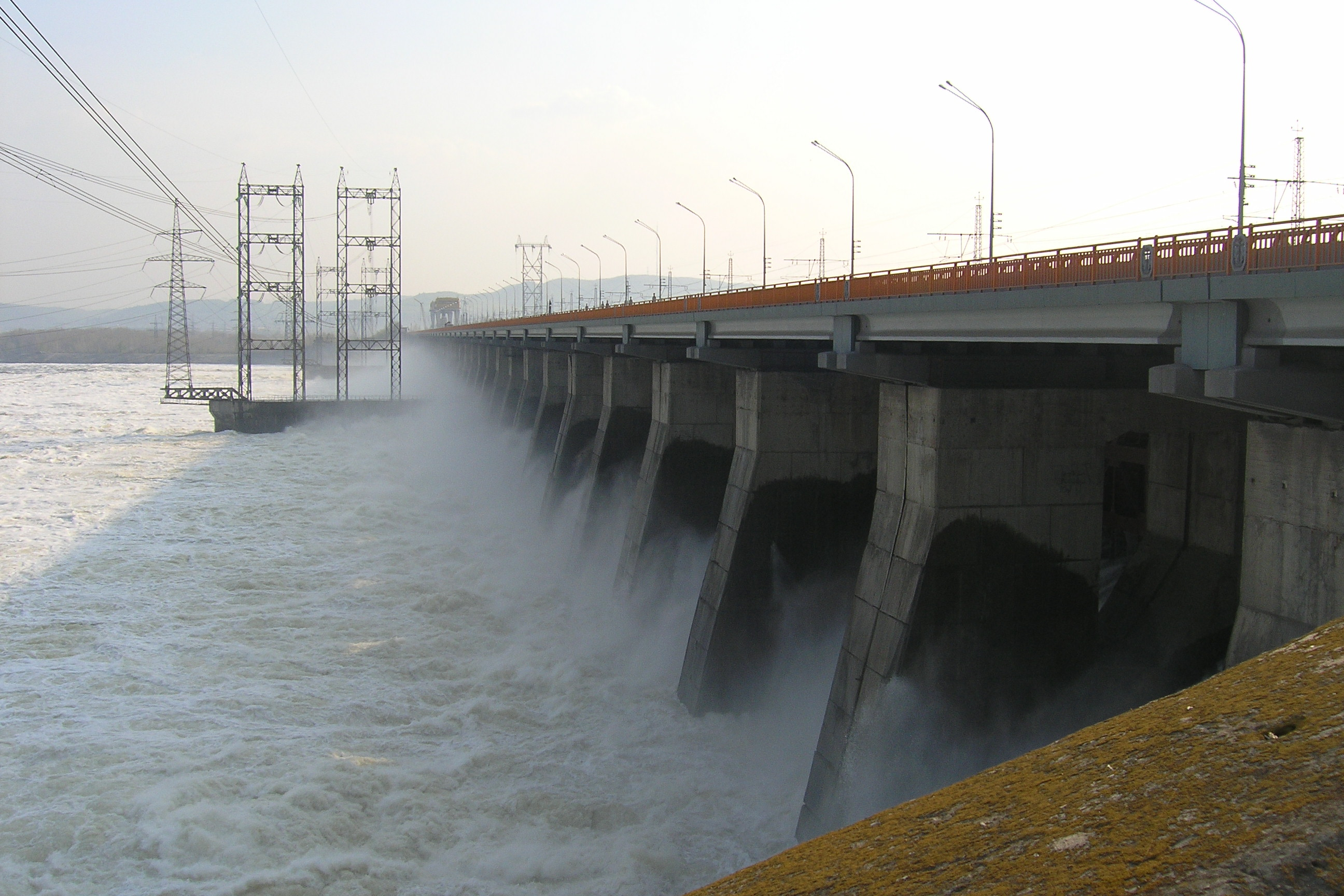 Discharge of water at the Zhiguli Hydroelectric Power Station during a flood, Tolyatti Russia